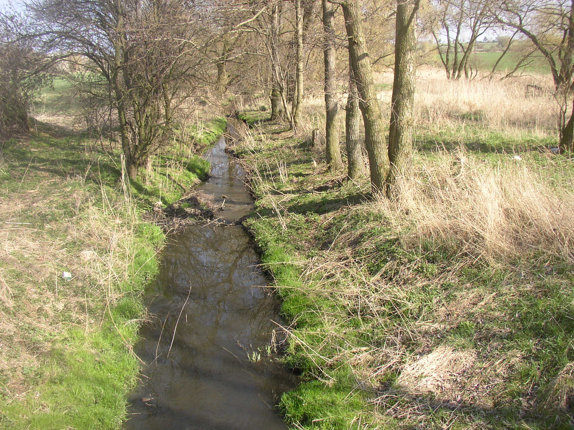 Týnecký potok, a small stream in basin of the Vltava River, as seen several hundred metres downstream of Brandýsek, Kladno District, Czech Republic.